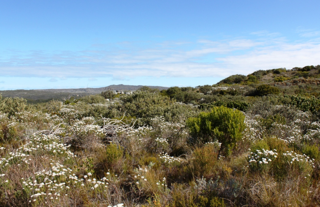 Hangklip sand fynbos. Fishhoek. Cape Town.